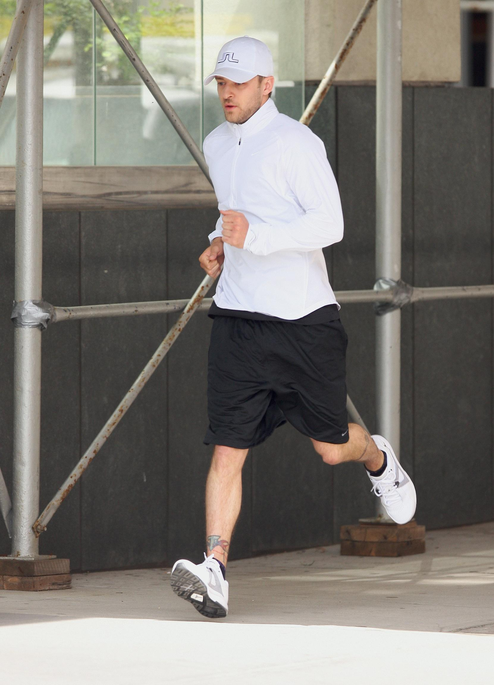 Singer Justin Timberlake runnning.